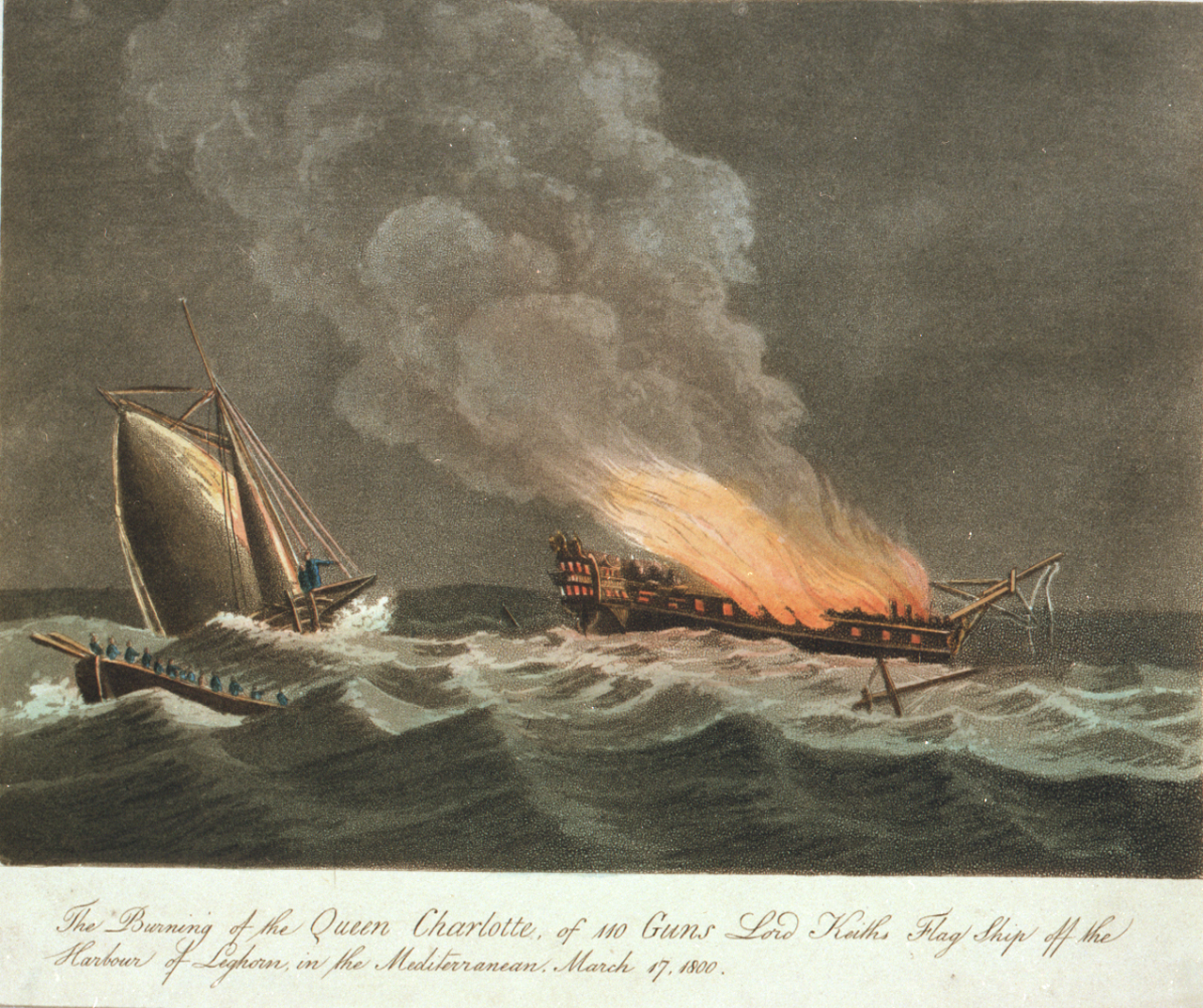 The Burning of the Queen Charlotte of 110 Guns Lord Keith's flagship off the Harbour of Leghorn, in the Mediterranean, March 17, 1800 Hand-coloured.